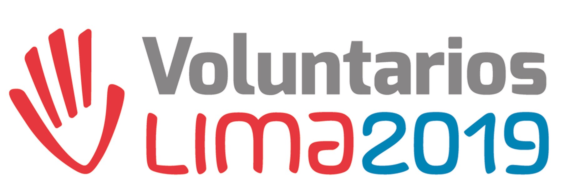 Logo of the Volunteering of the Lima 2019 Games.